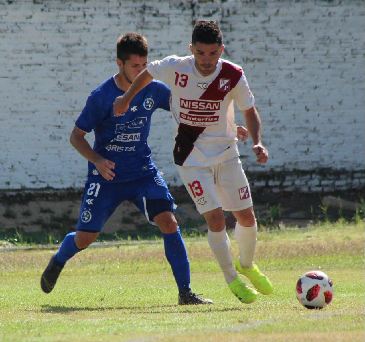 A football game.